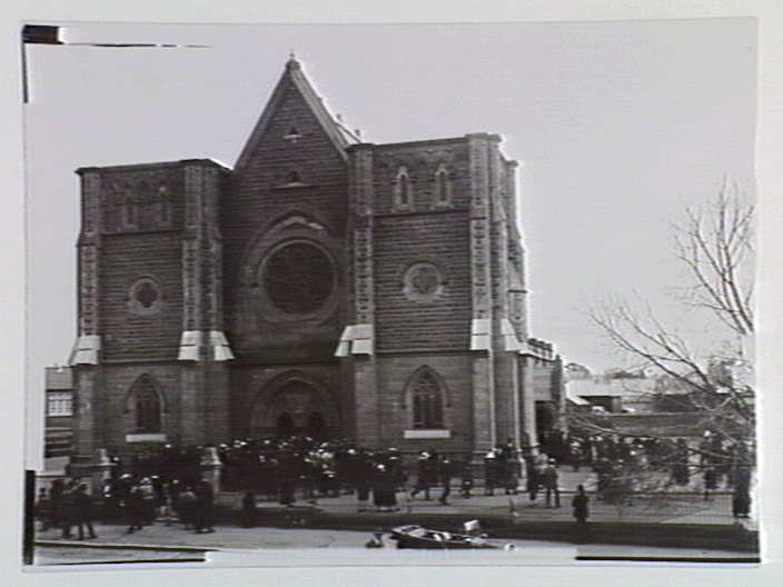 St. Mary of the Angels Basilica, Yarra Street, Geelong, Victoria, Australia Licensing